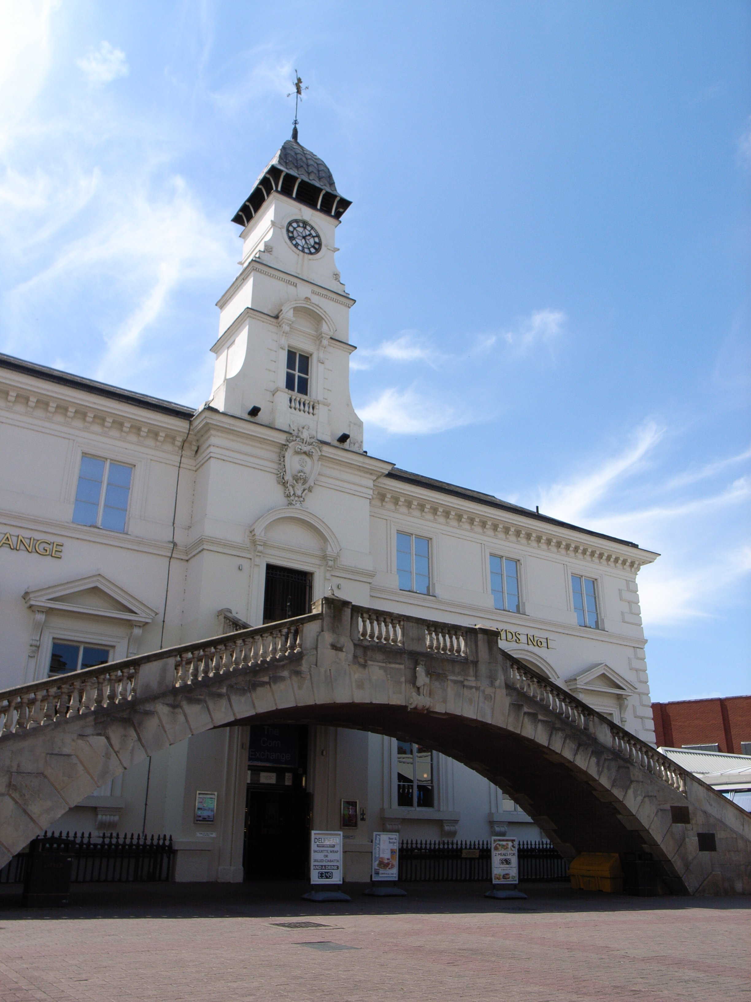 The Corn Exchange, Leicester. This was built in 1850 by the local architect William Flint, with the upper floor and tower being added by F. W. Ordish in 1855.